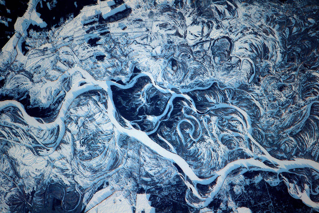 European Space Agency astronaut Thomas Pesquet, a member of the Expedition 50 crew, captured this image from the International Space Station on "Feb. 9th, 2017, saying, "winter landscapes are also magical from the International Space Station: this river north of Kiev reminds me of a Hokusai painting".